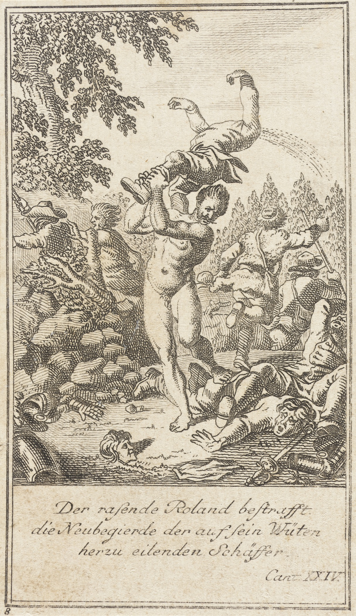 Germany, 1772 Book: Almanac Généalogique, 1772 Prints; etchings Etching, laid down Gift of Mr. and Mrs. Fred Grunwald (54.67.88) Prints and Drawings